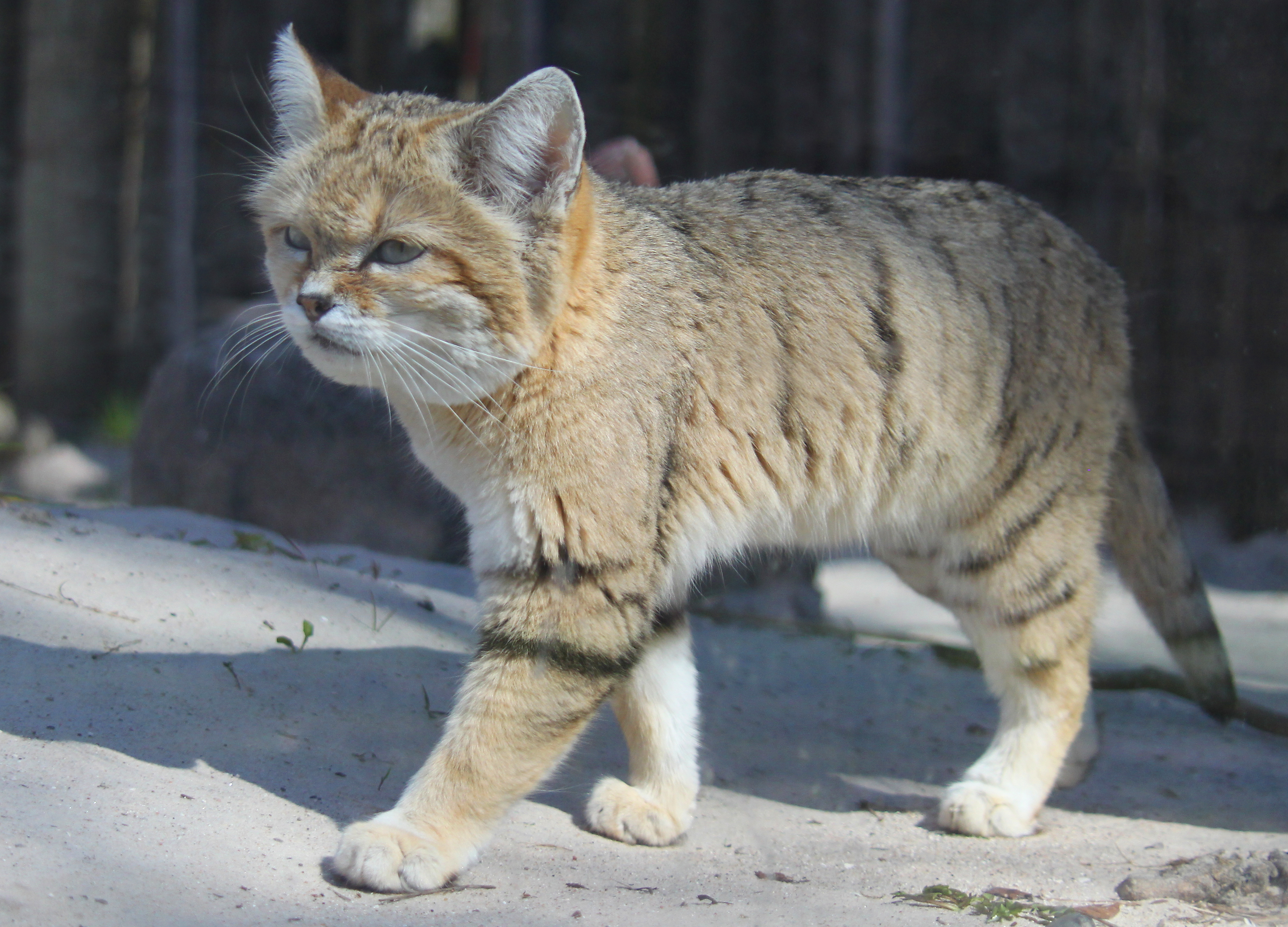 Sand cat. Captured at Ree Park - Ebeltoft Safari, Denmark.